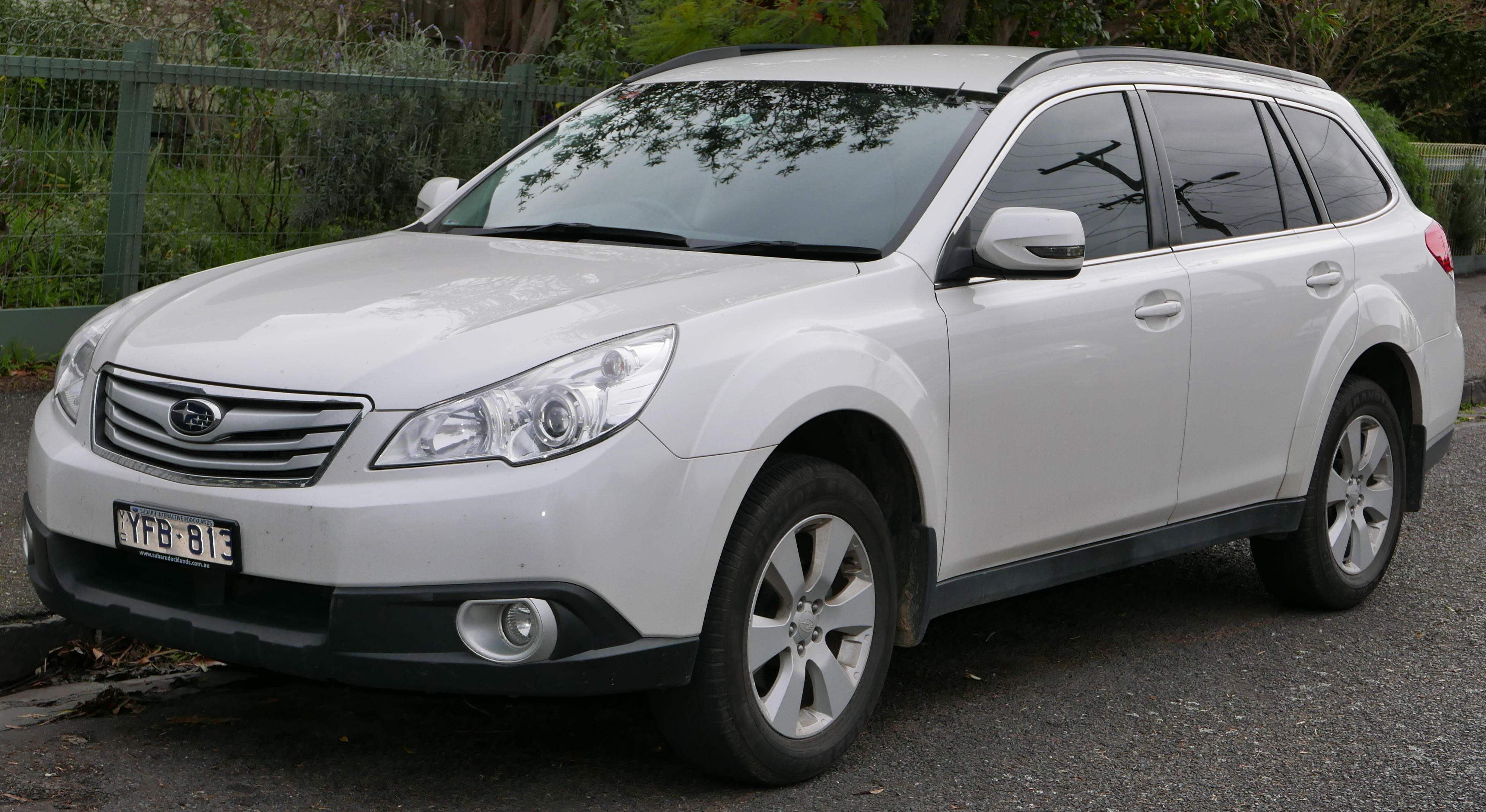 2011 Subaru Outback (BR9 MY11) 2.5i station wagon. This has been listed as the 2.5i due to the lack of sunroof and headlight washers [1]. Photographed in Brunswick, Victoria, Australia. Vehicle registration enquiry resultsJurisdictionVictoriaRegistrationYFB813Chassis codeJF2BR9K95BG022412Engine codeE351117Compliance date2011-02Year of manufacture2011